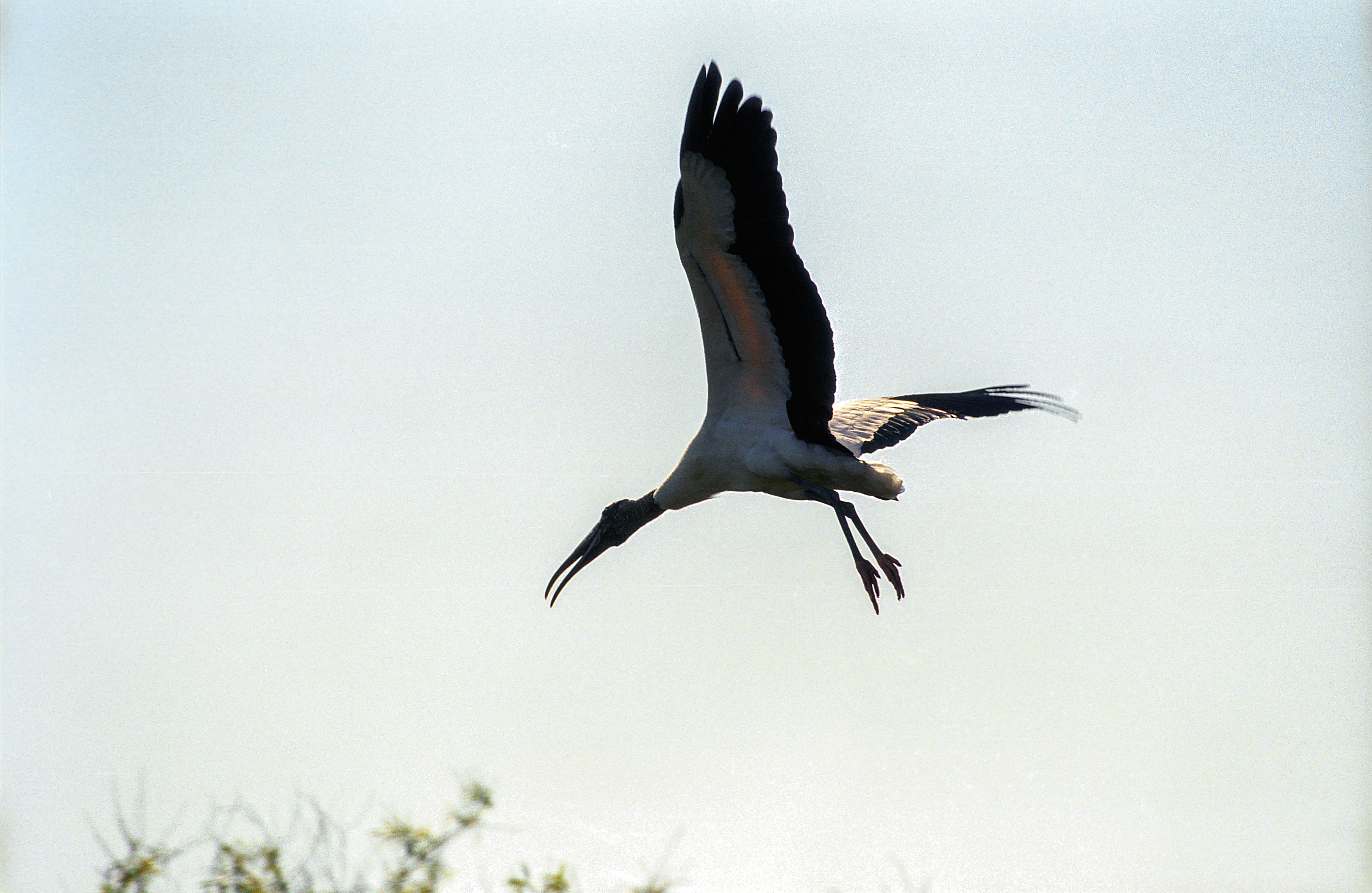 Wood Stork, Everglades NP